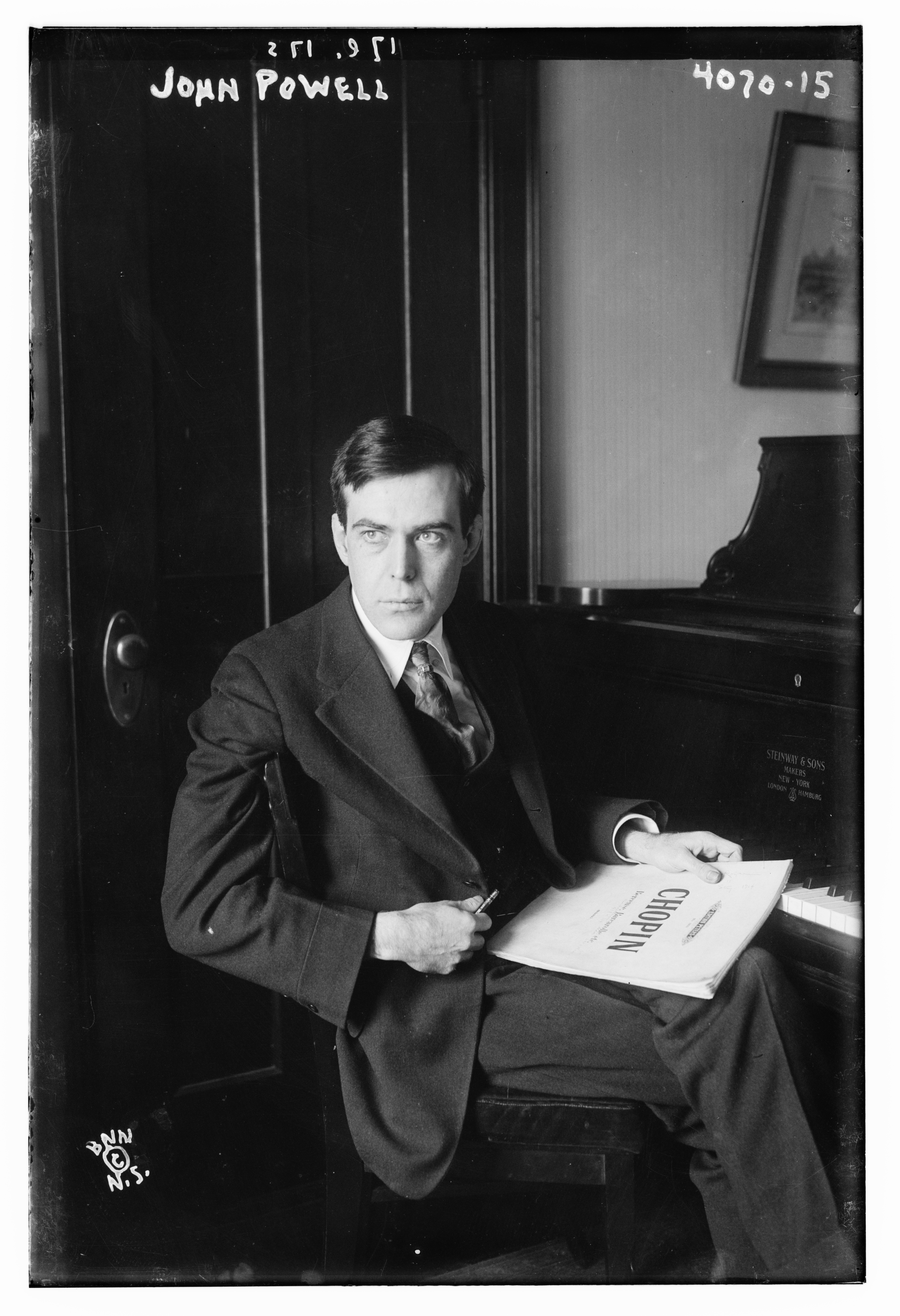 John Powell at piano in 1916